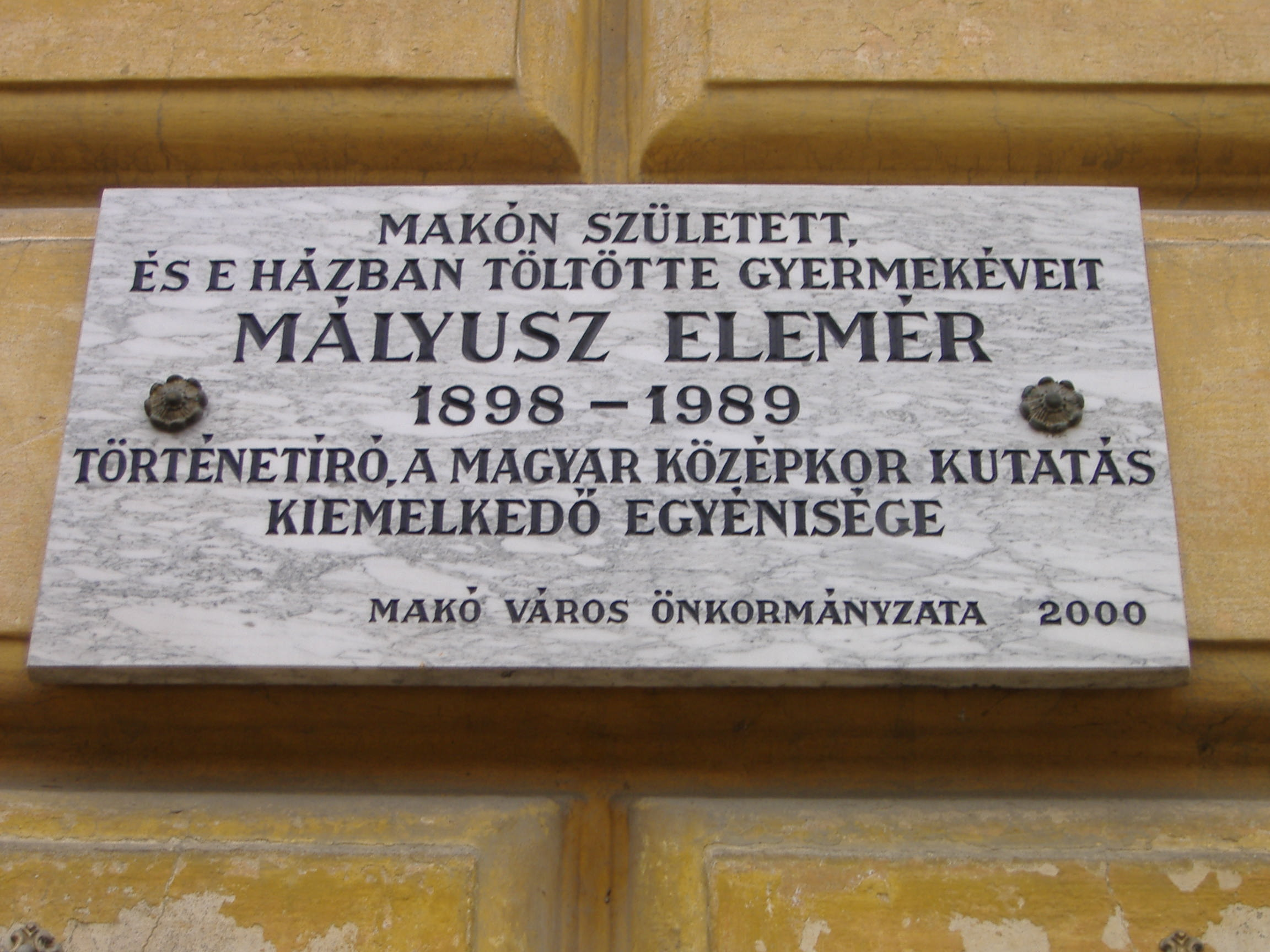 Memorial tablet of Elemér Mályusz, Hungarian historian in Makó, Hungary.